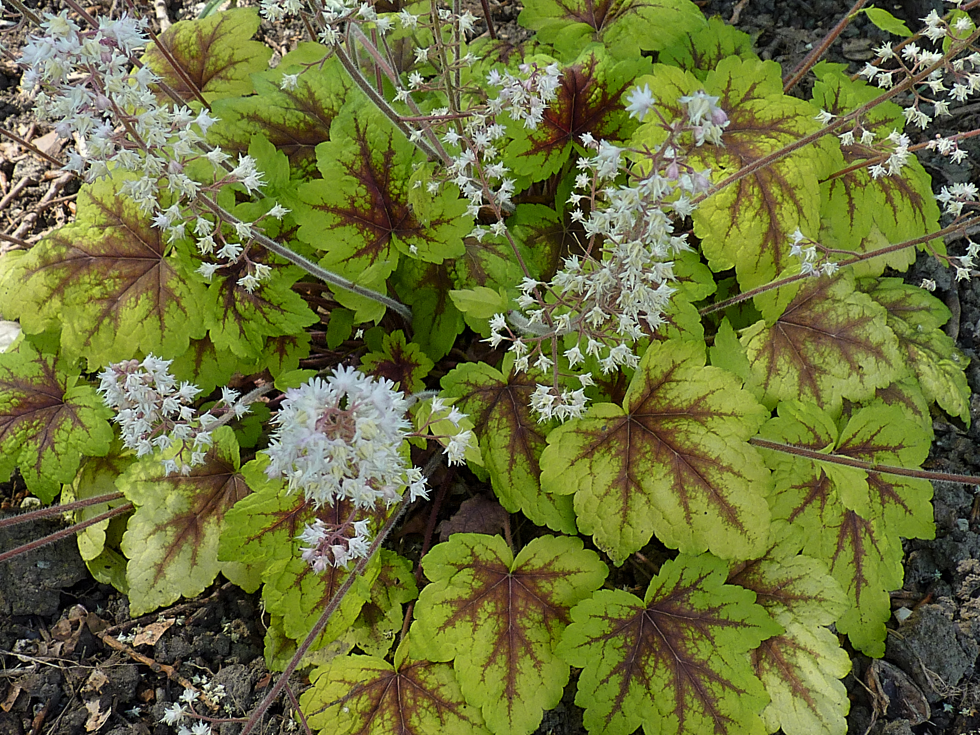 Heucherella 'Stoplight', in a garden in Belgium.